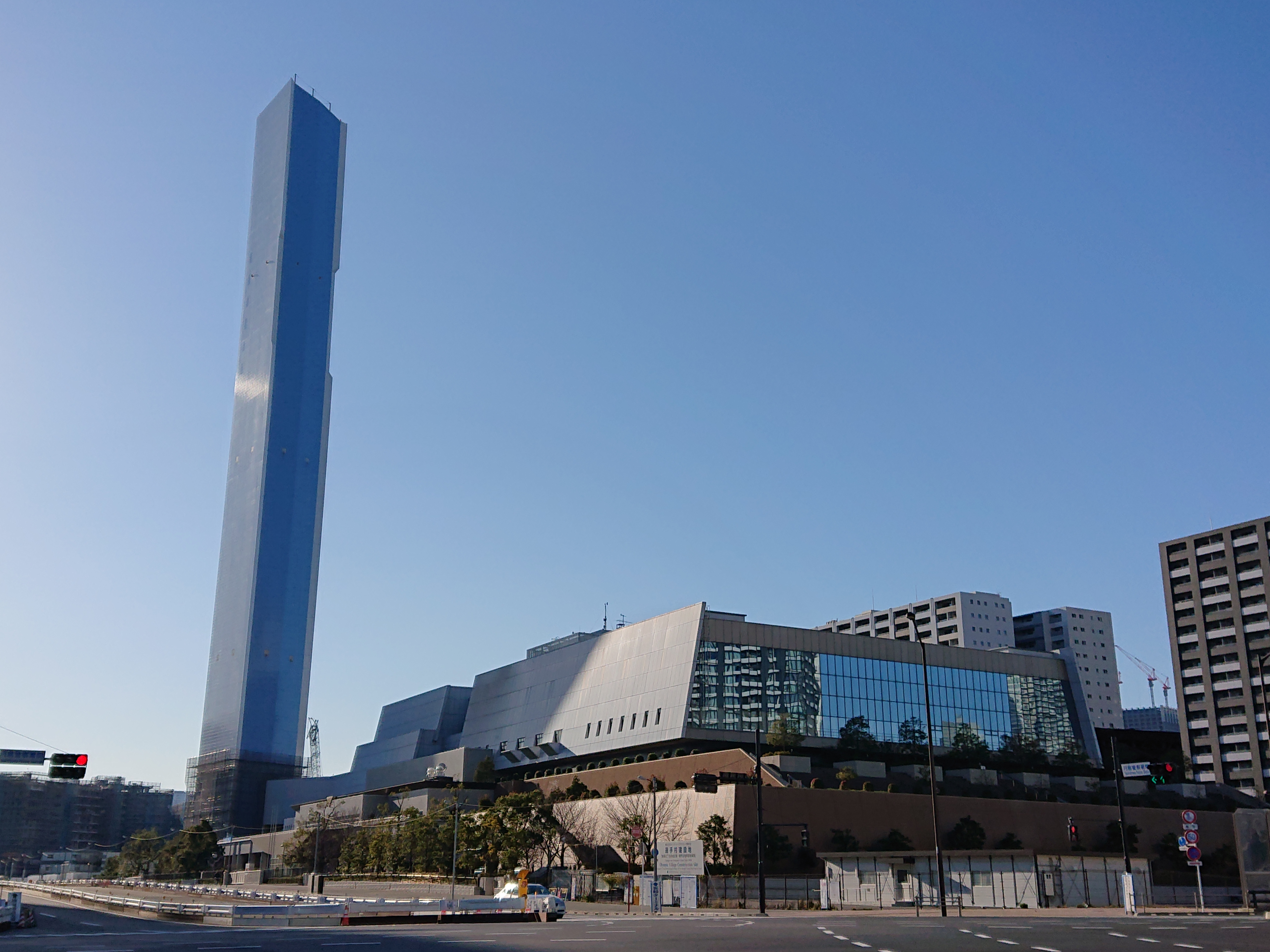 Chuo Incineration Plant (中央清掃工場), located at 5-2-1 Harumi, Chuo, Tokyo, Japan